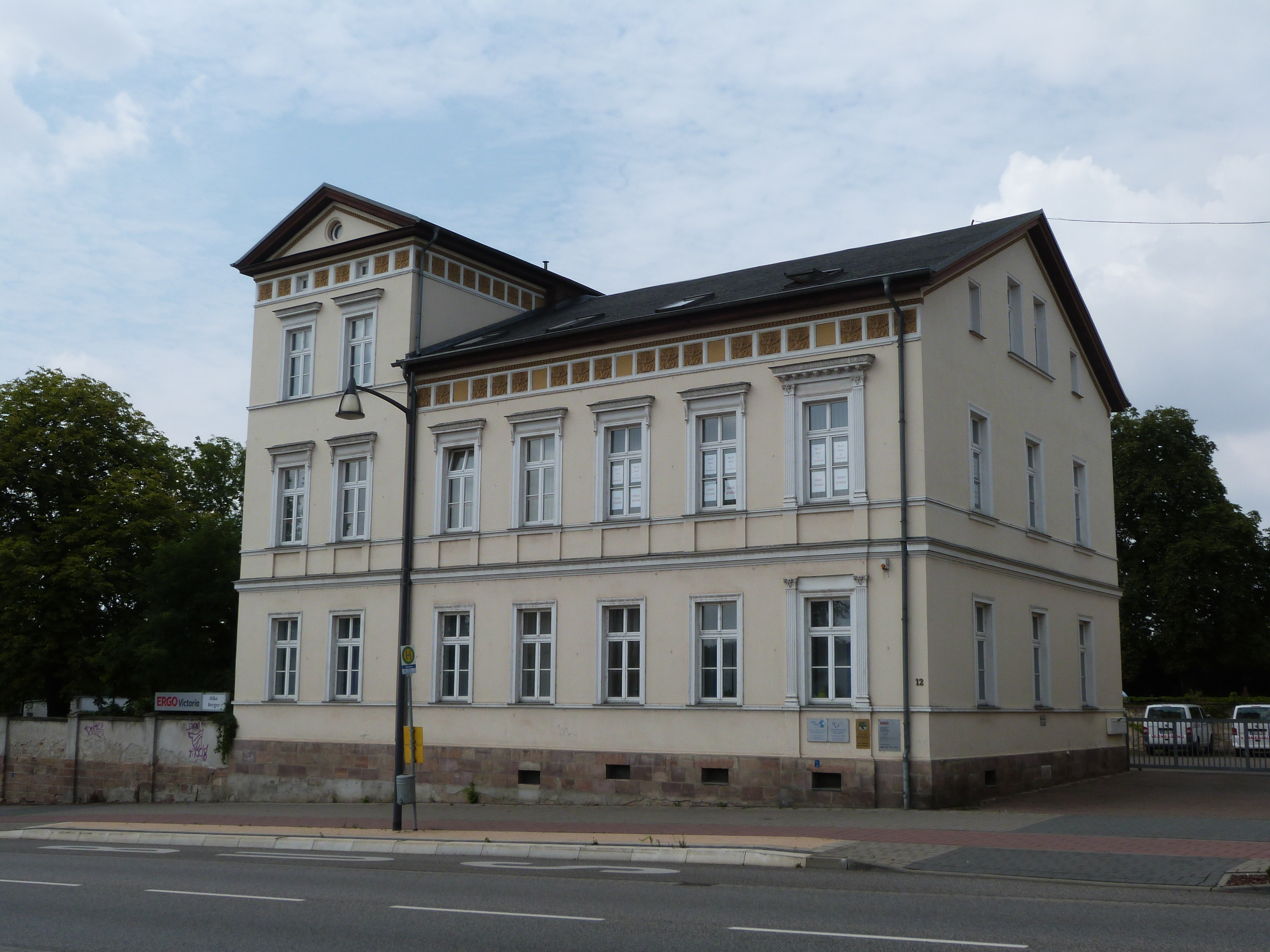 House No. 12, Merseburger Strasse, Weissenfels, Saxony-Anhalr